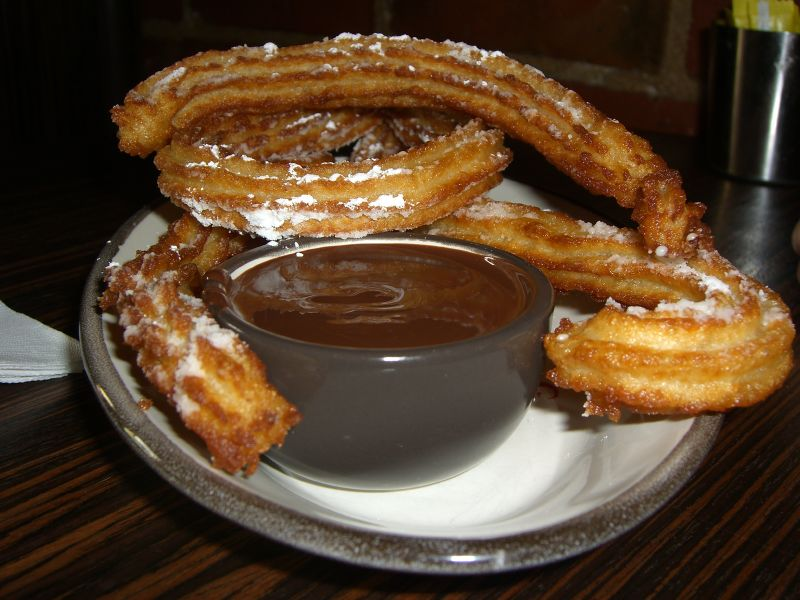 churros with dark chocolate sauce from the Chocolatería San Churro.